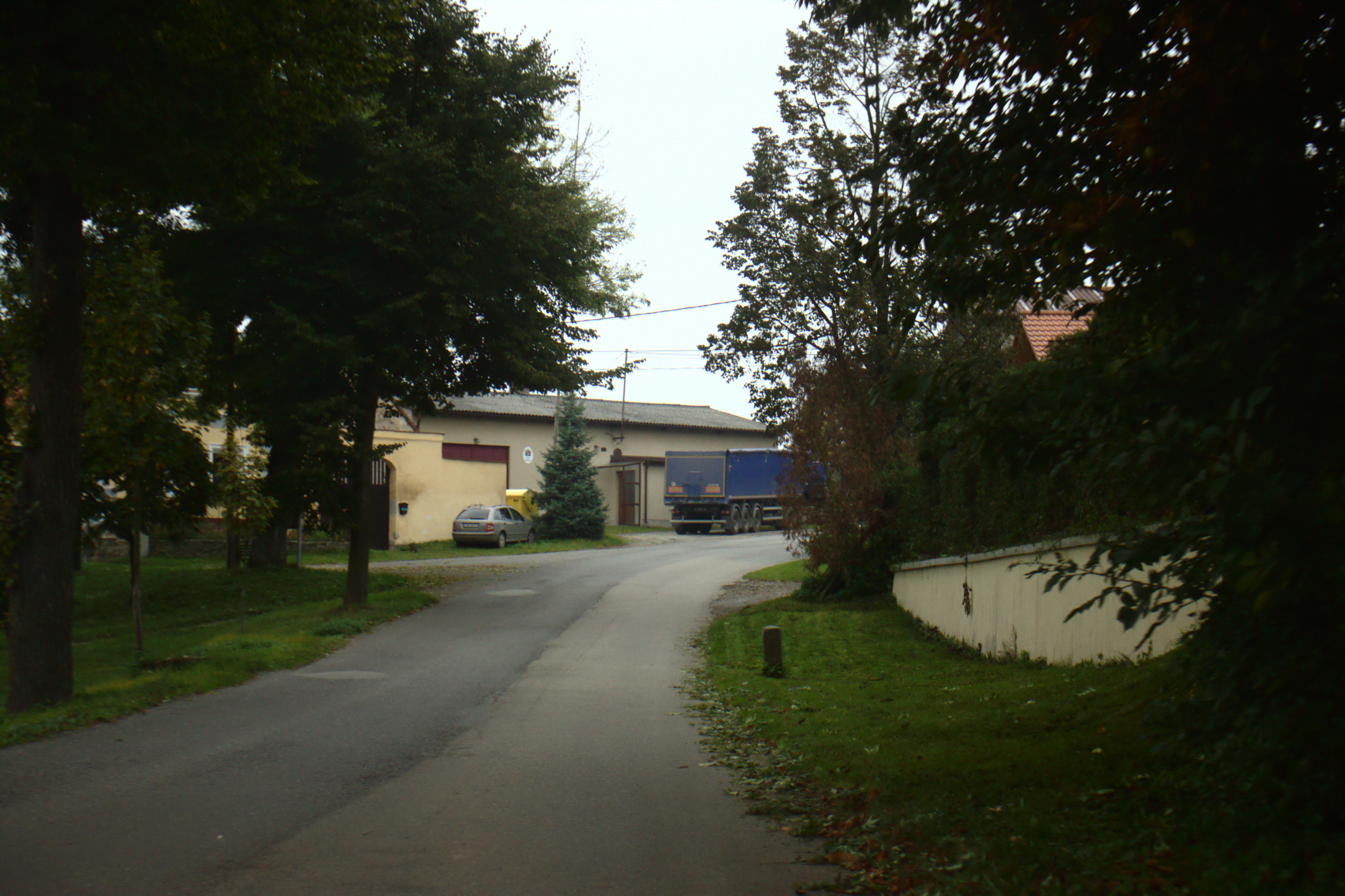 Main common in Božkovice near Benešov, Central Bohemia, CZ